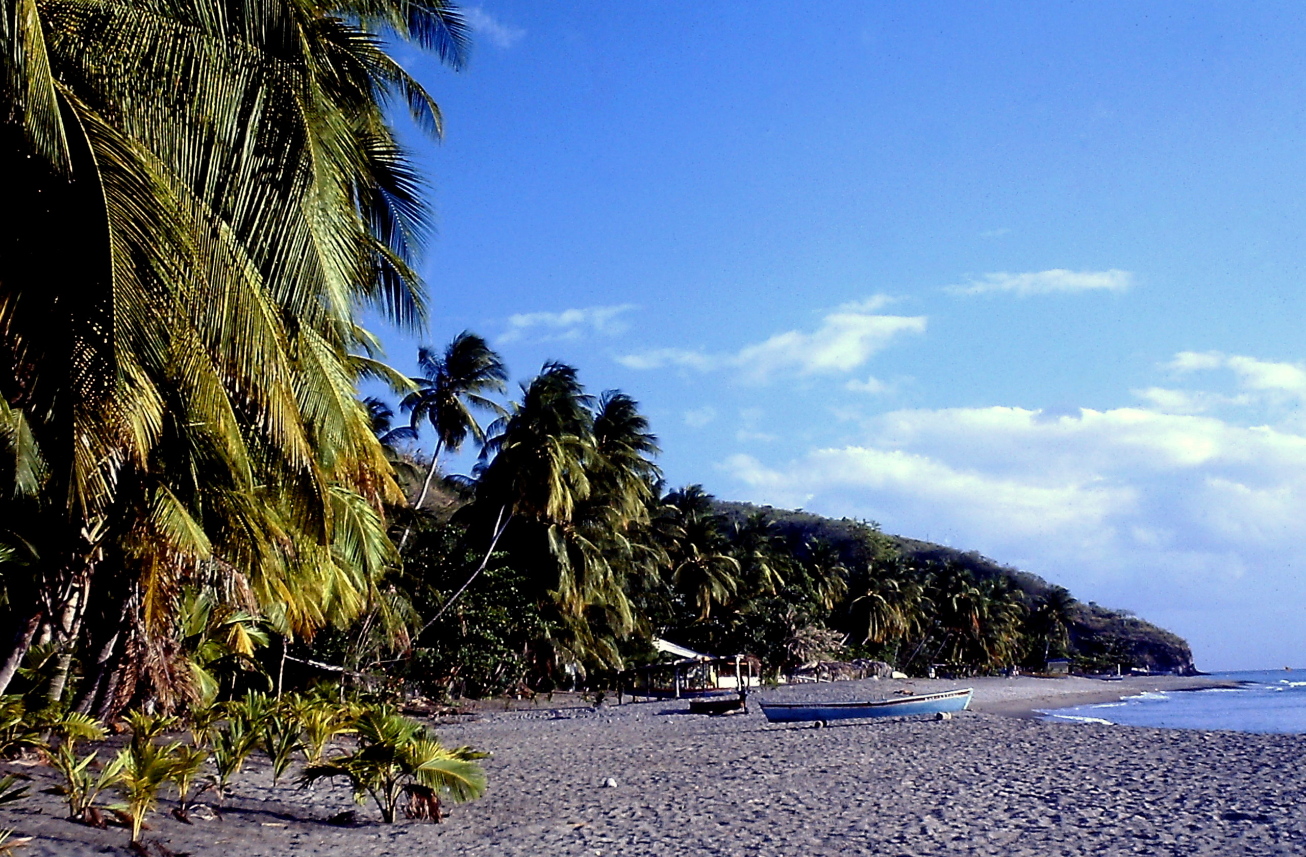 Carbet Beach, Martinique